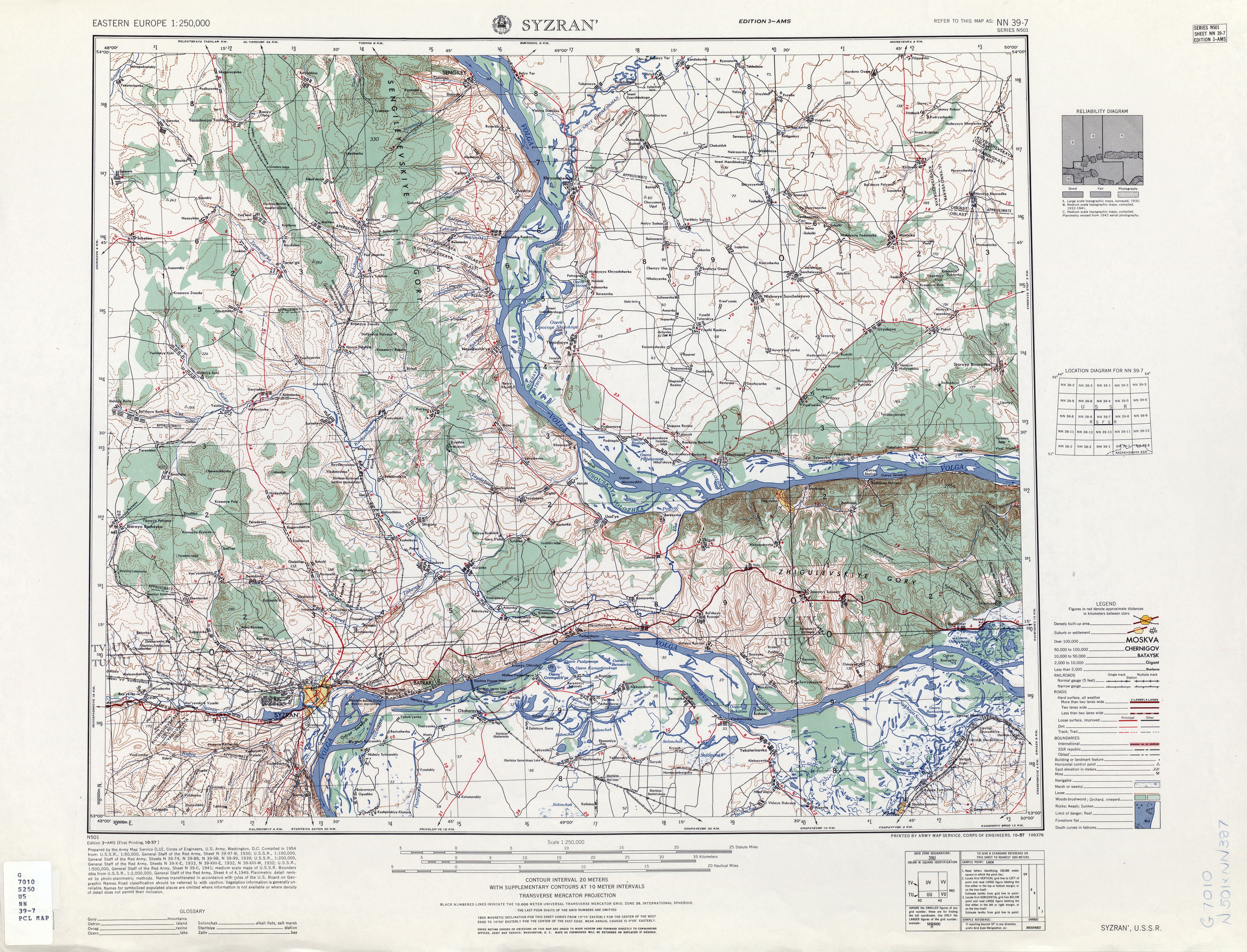 List from Eastern Europe AMS Topographic Maps. Series N501, U.S. Army Map Service, 1954